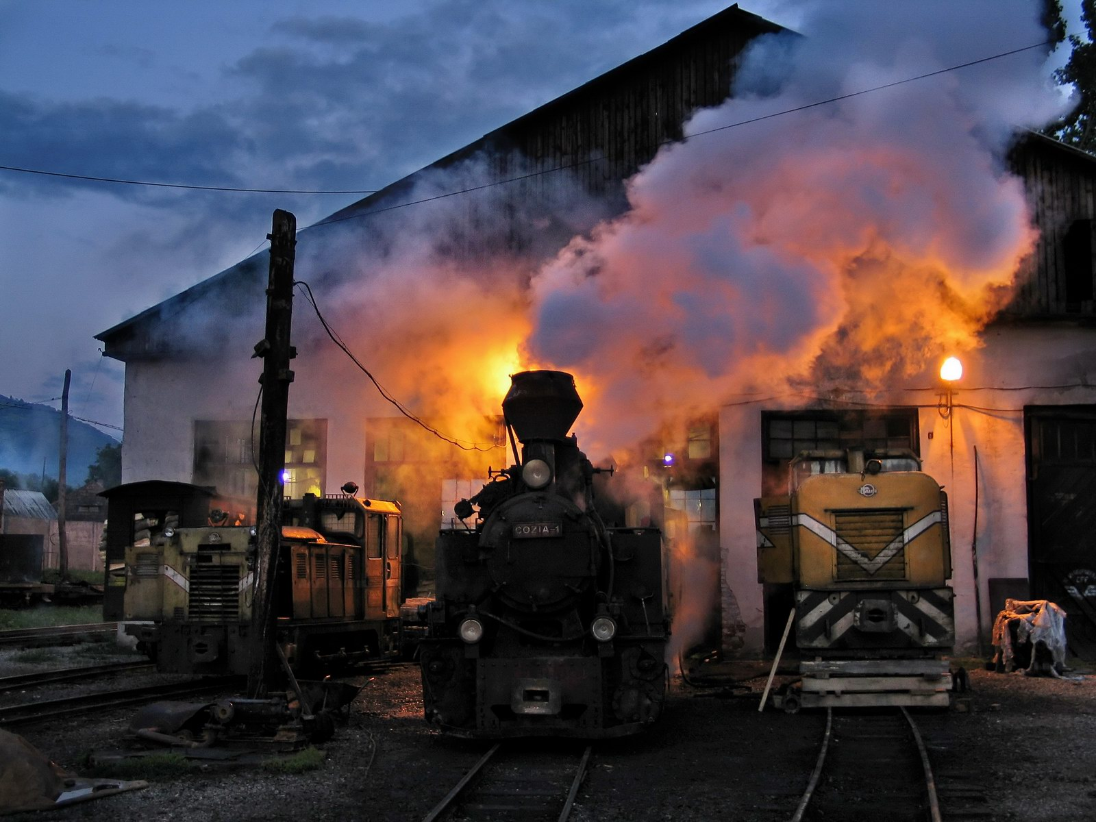 Vișeu de Sus, narrow-gauge railway, locomotive shed, in the early autumn morning. Steam engines are warming-up !...